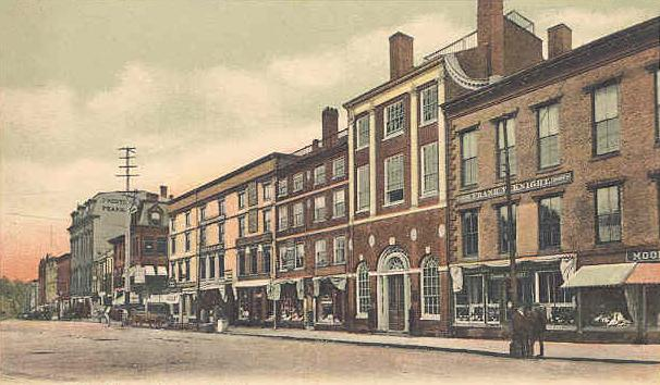 Market Square, Portsmouth, New Hampshire, showing The Portsmouth Athenæum